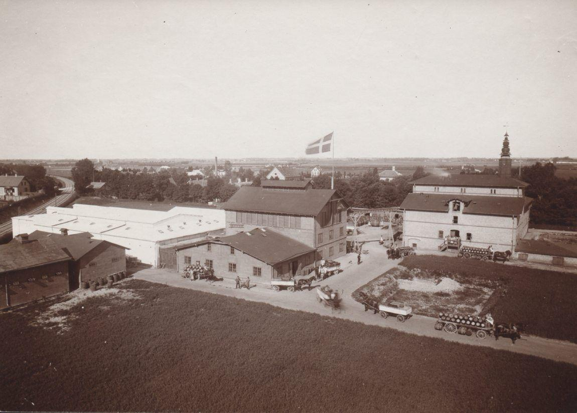 Bryggeriet Frederiksberg on Lampevej (now Howitzvej) in Frederiksberg, Copenhagen, Denmark